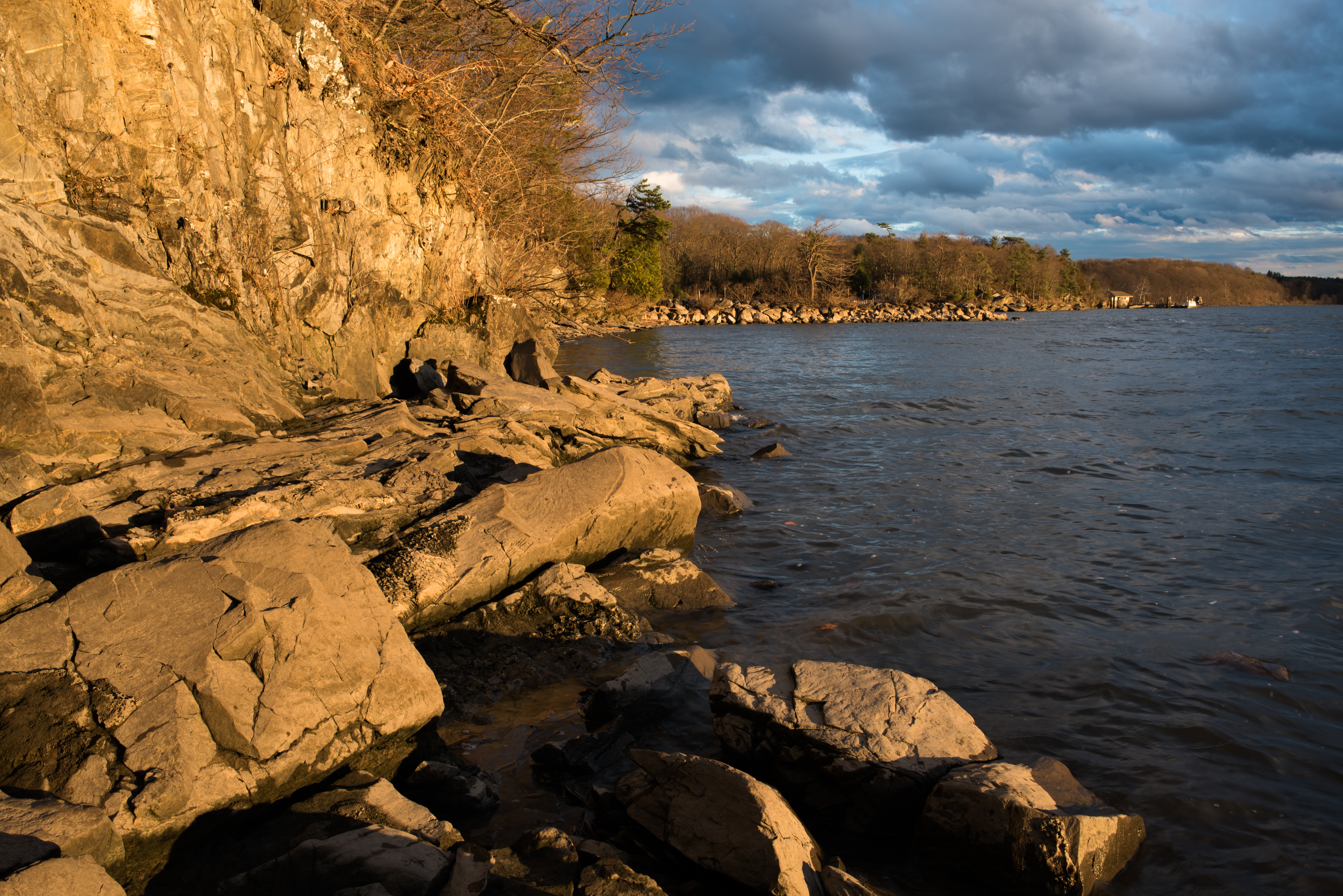 The eastern bank of the Hudson River at Margaret Lewis Norrie State Park in Hyde Park, New York, USA.